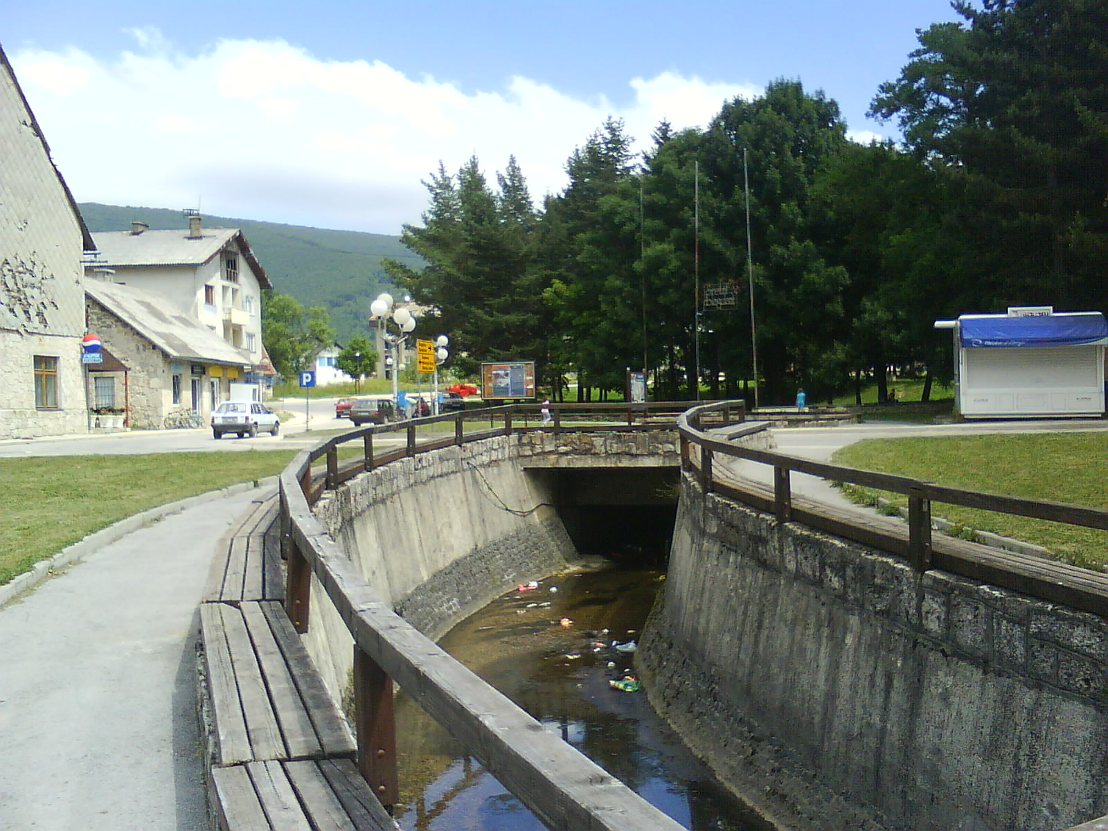 Square of Croatian knights in Kupres